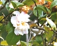 Regulus madeirensis feeding from white Camellia flower, photographed by "Motacilla" at Palheiro Ferrero, Madeira, 24 Feb 2005